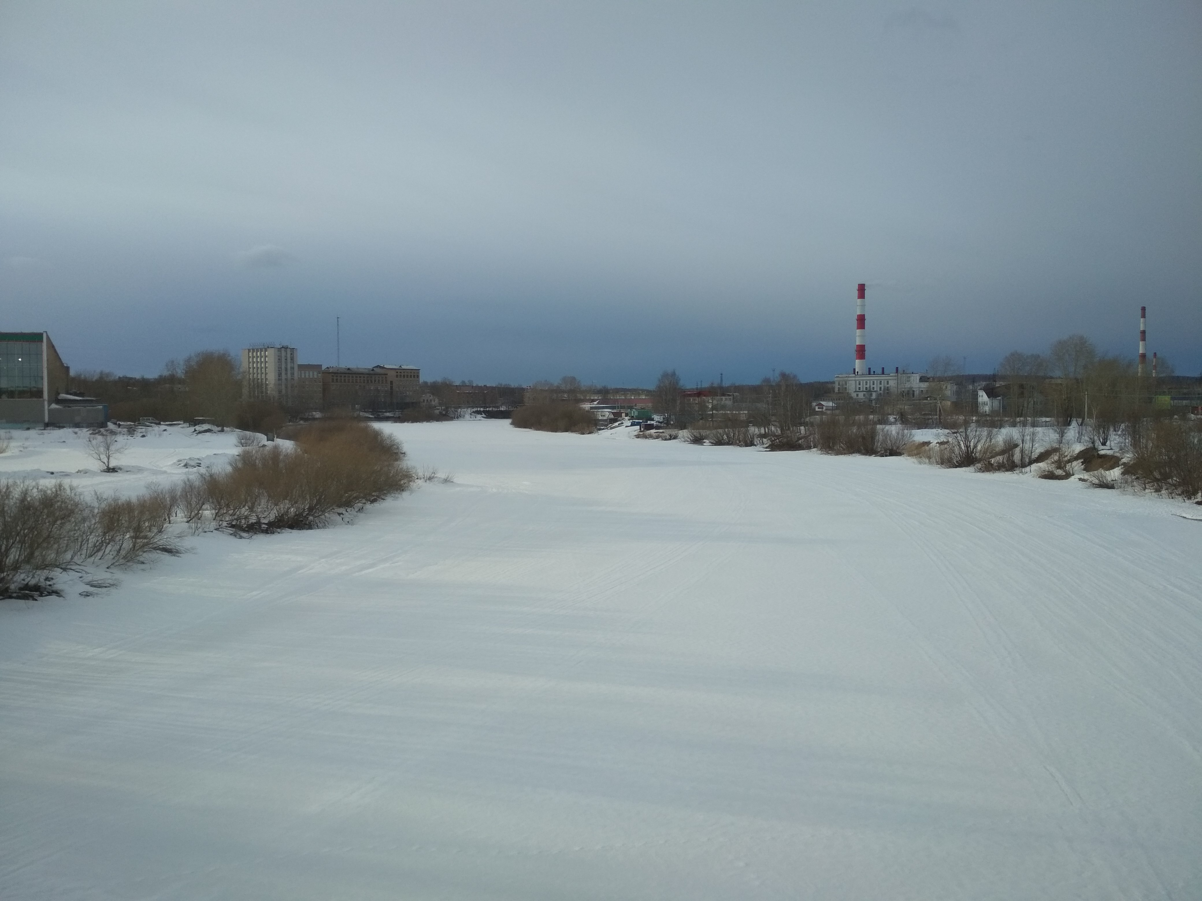 Ukhta river in the city of Ukhta. View from the bridge over the river Ukhta.